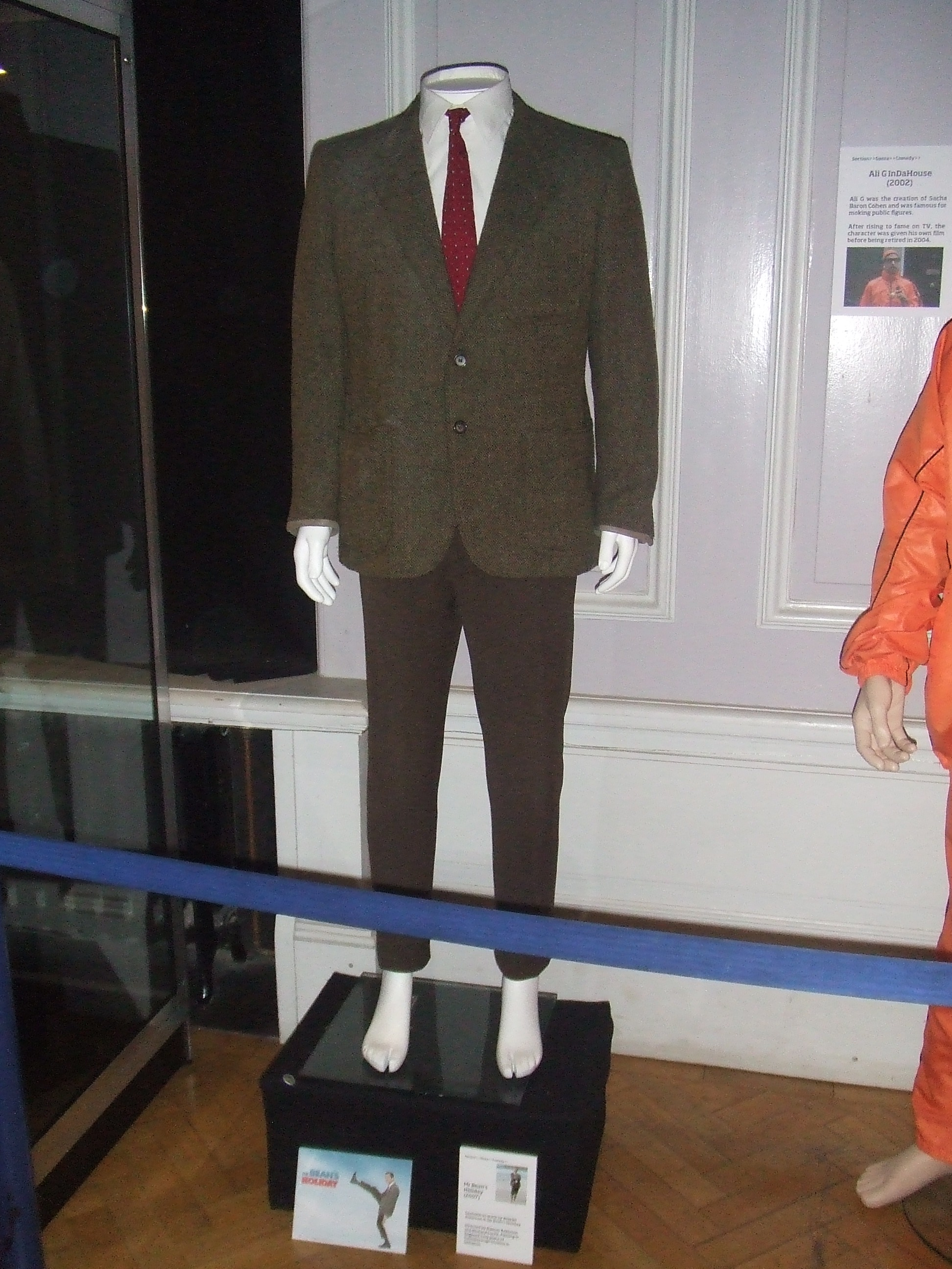 Costume from the film Mr. Bean's Holiday displayed at the London Film Museum.